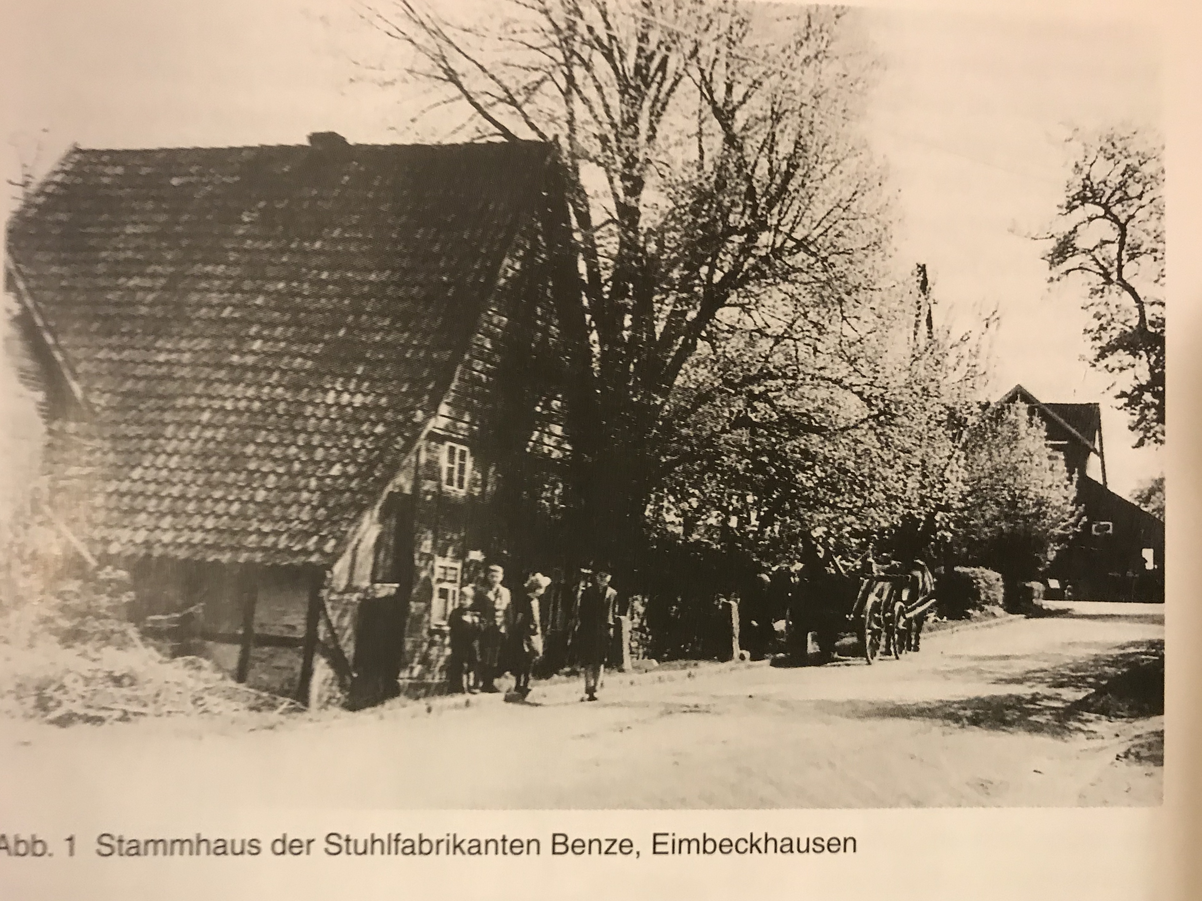 Anfänge der Firma Benze in der Nienstedter Straße